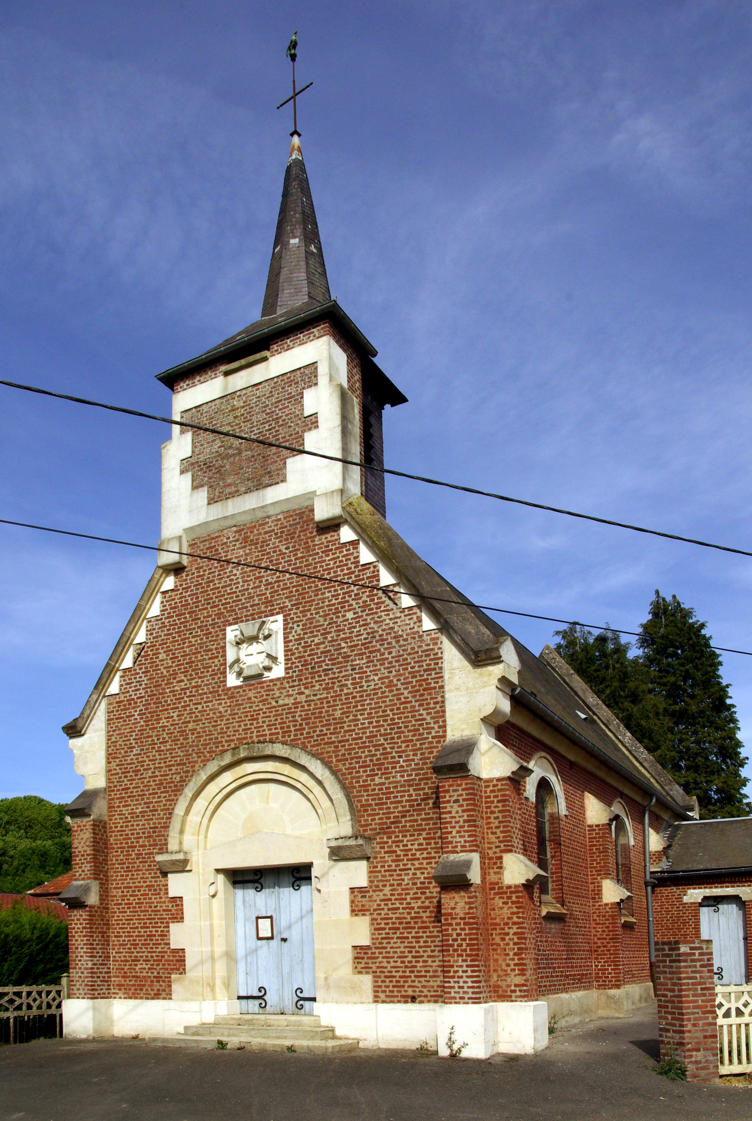 Church Coigneux